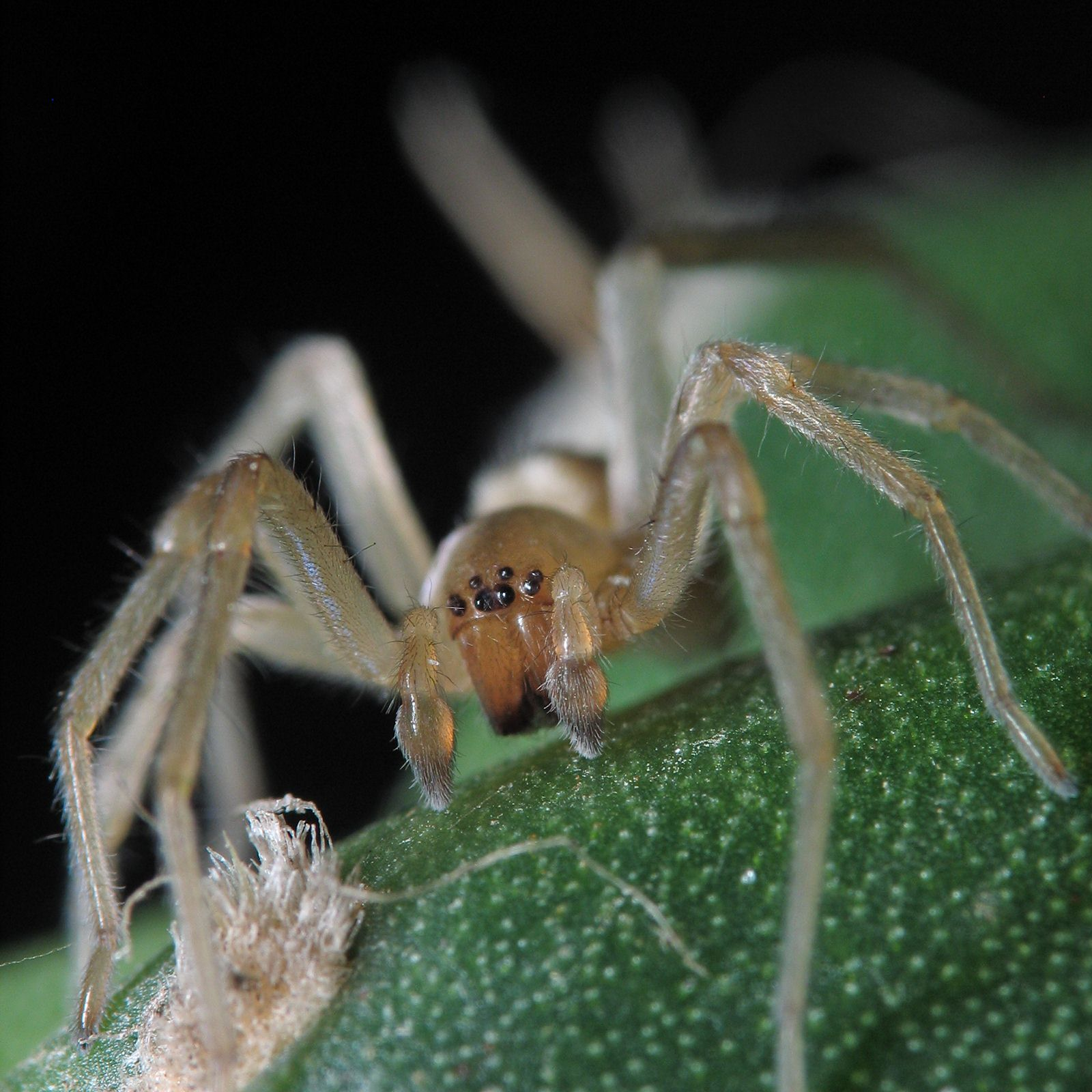 Frontal close-up of a male ground spider (family: Gnaphosidae).